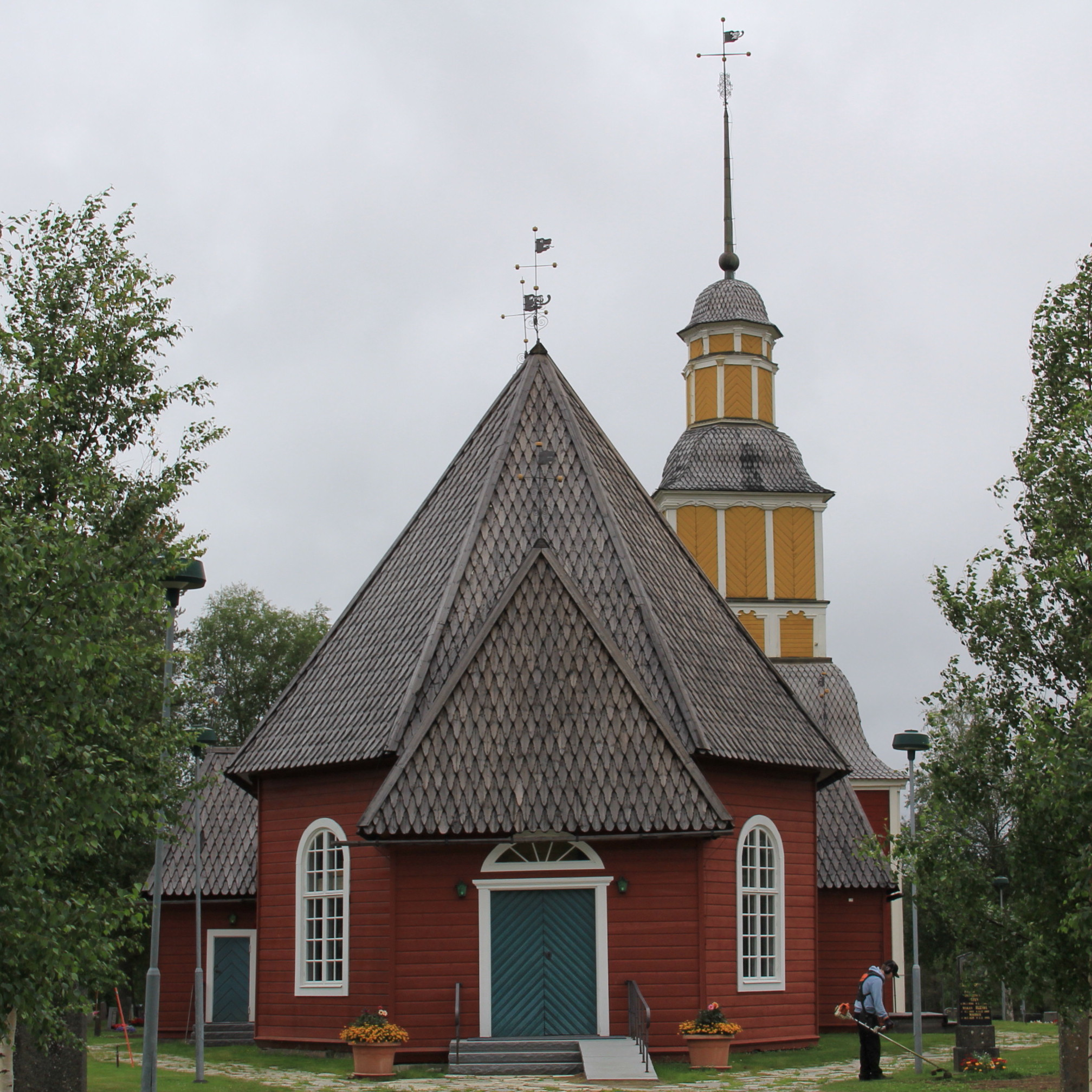 Hietaniemi church, Hedenäset, Övertorneå Municipality, Sweden. - Church main entrance seen from churchyard gate.